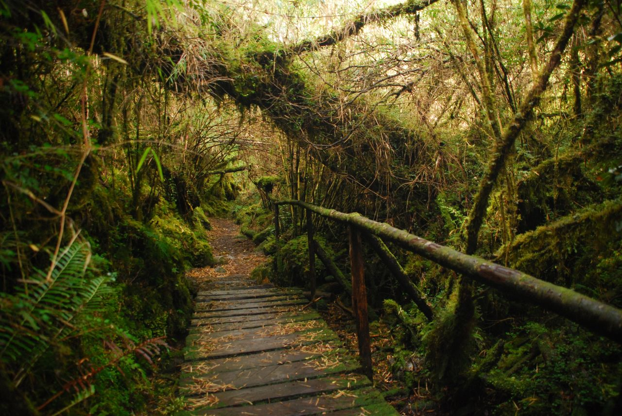 Forest trail in Queulat National Park, Chile.